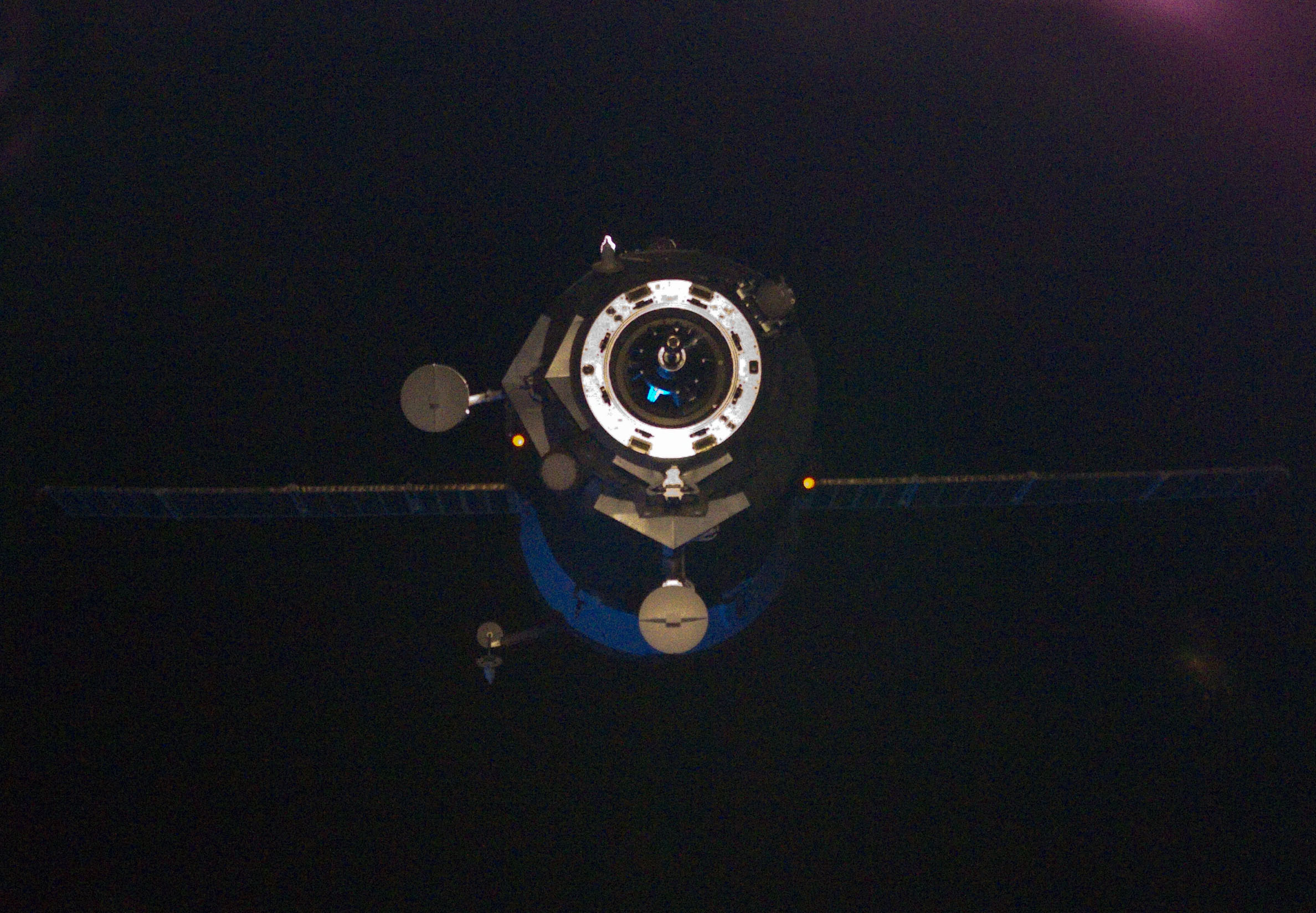 An unpiloted ISS Progress resupply vehicle approaches the International Space Station, bringing to the orbiting complex 1,918 pounds of propellant, 1,100 pounds of oxygen, 498 pounds of water and 2,804 pounds of food, spare parts, experiment hardware and other supplies for the Expedition 25 crew members. Progress 40 docked to the Pirs Docking Compartment at 12:36 p.m. (EDT) on Oct. 30, 2010.